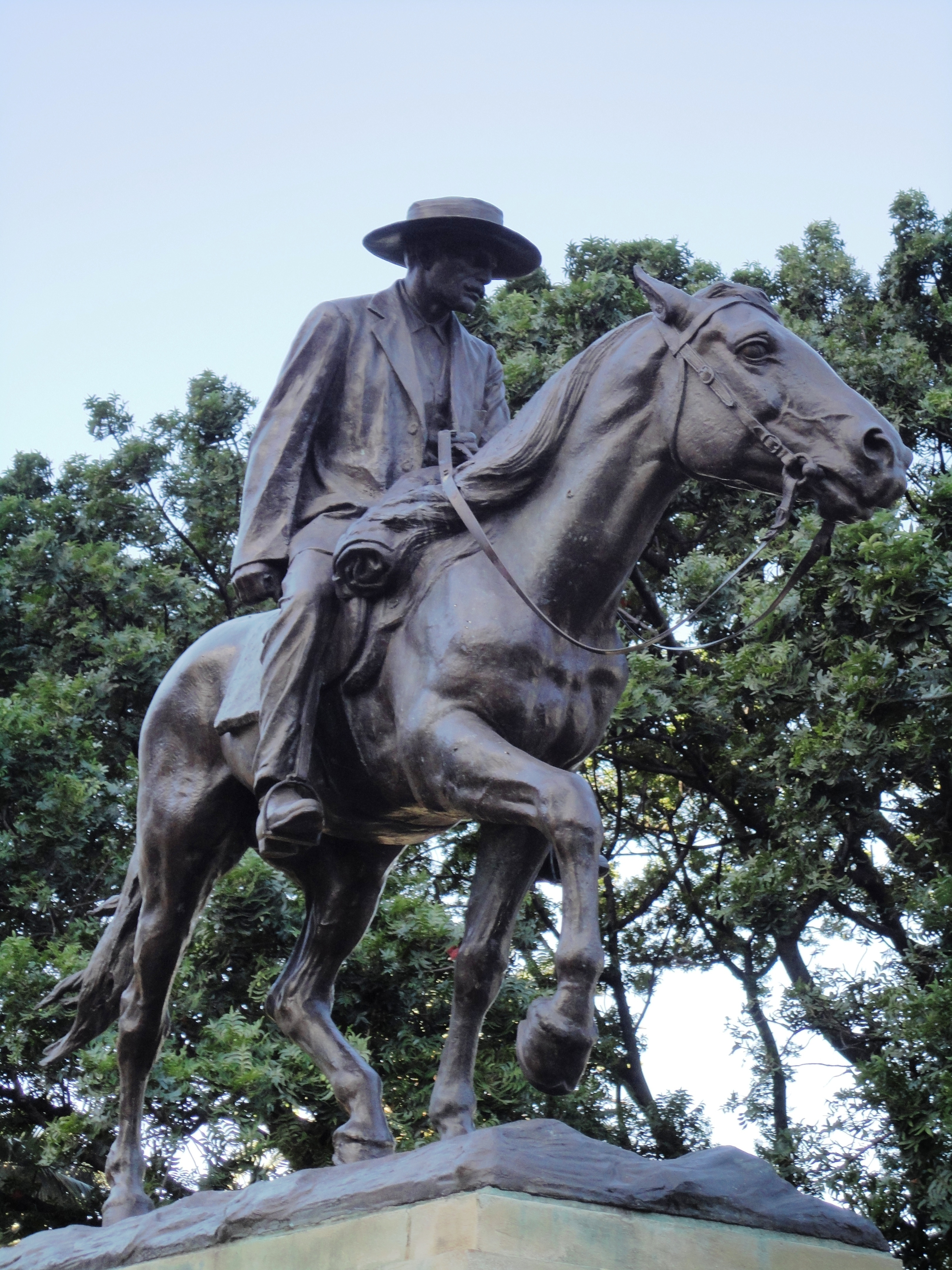 Equestrian statue of Dick King, Durban